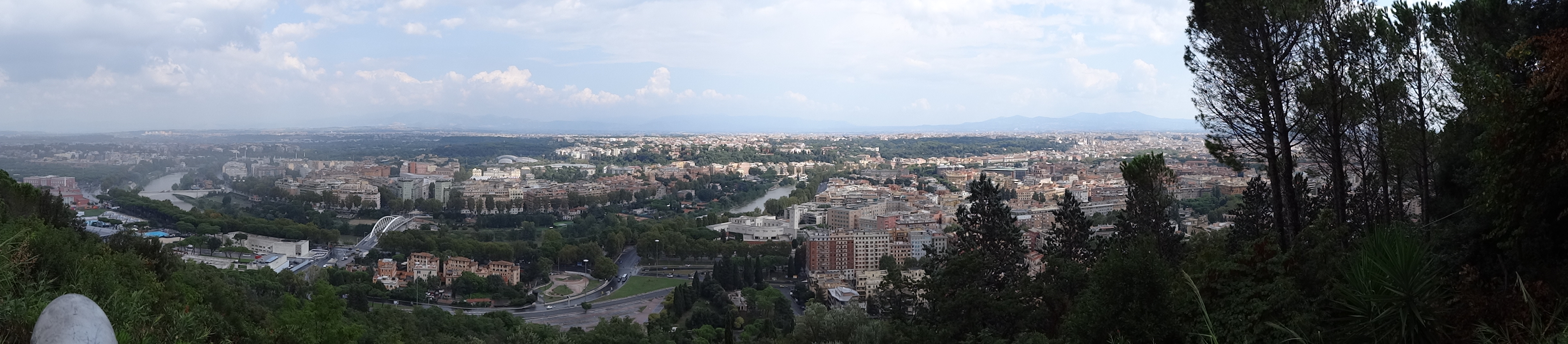 Monte mario panorama